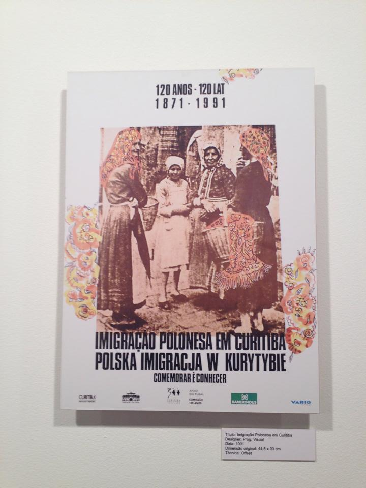 Commemorative poster from 1991 celebrating 120 years since Polish immigration to Curitiba. I do not own the rights to the contents of the poster but I took the photo during the cultural exhibition entitled 'FUNDAÇÃO CULTURAL EM CARTAZ - Mais de 40 anos de história' in Curitiba, Paraná, Brazil.